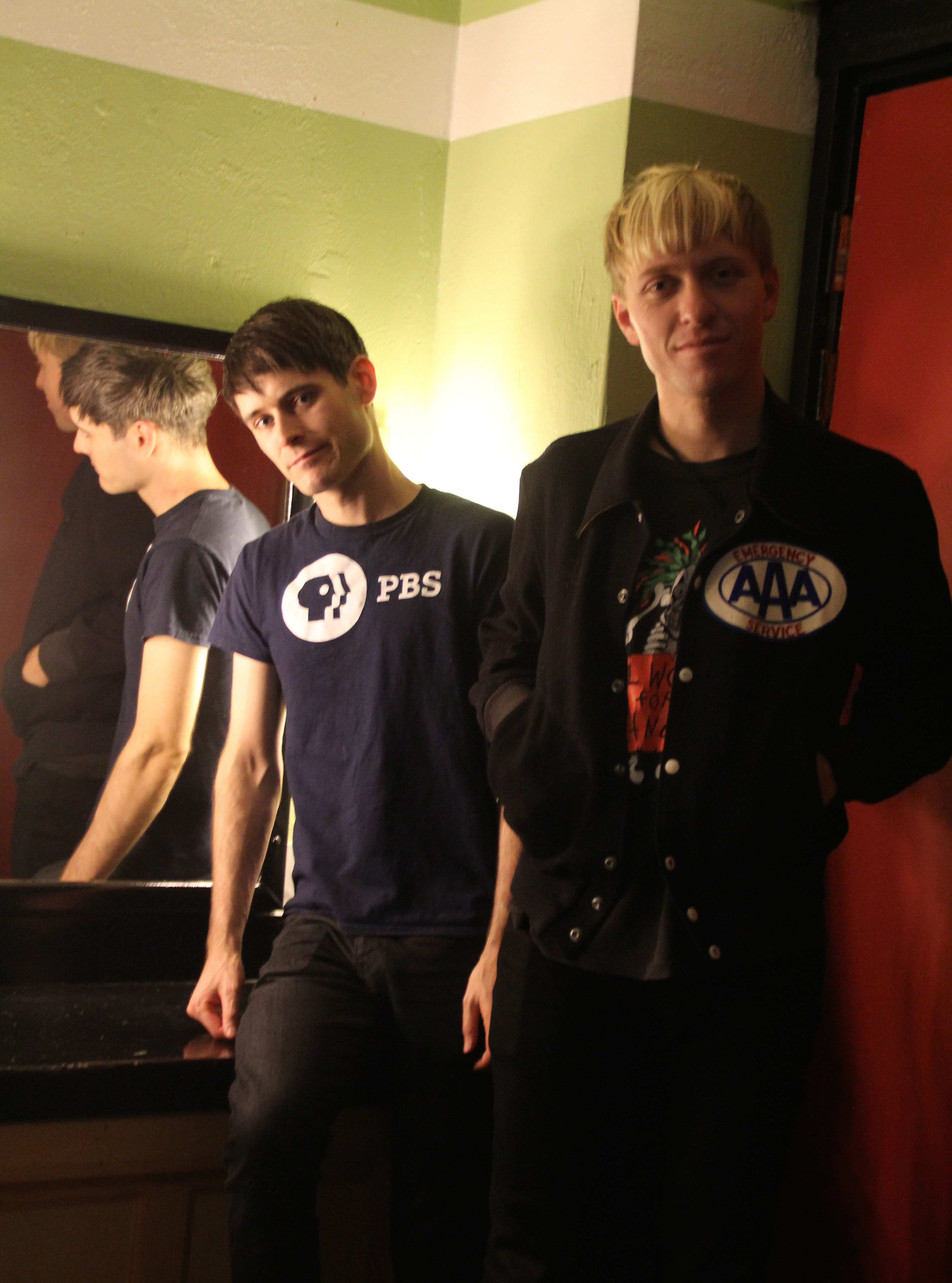 The Drums live at the Mayan Theatre Los Angeles, October 5, 2014 (Amanda Sin / Neon Tommy)